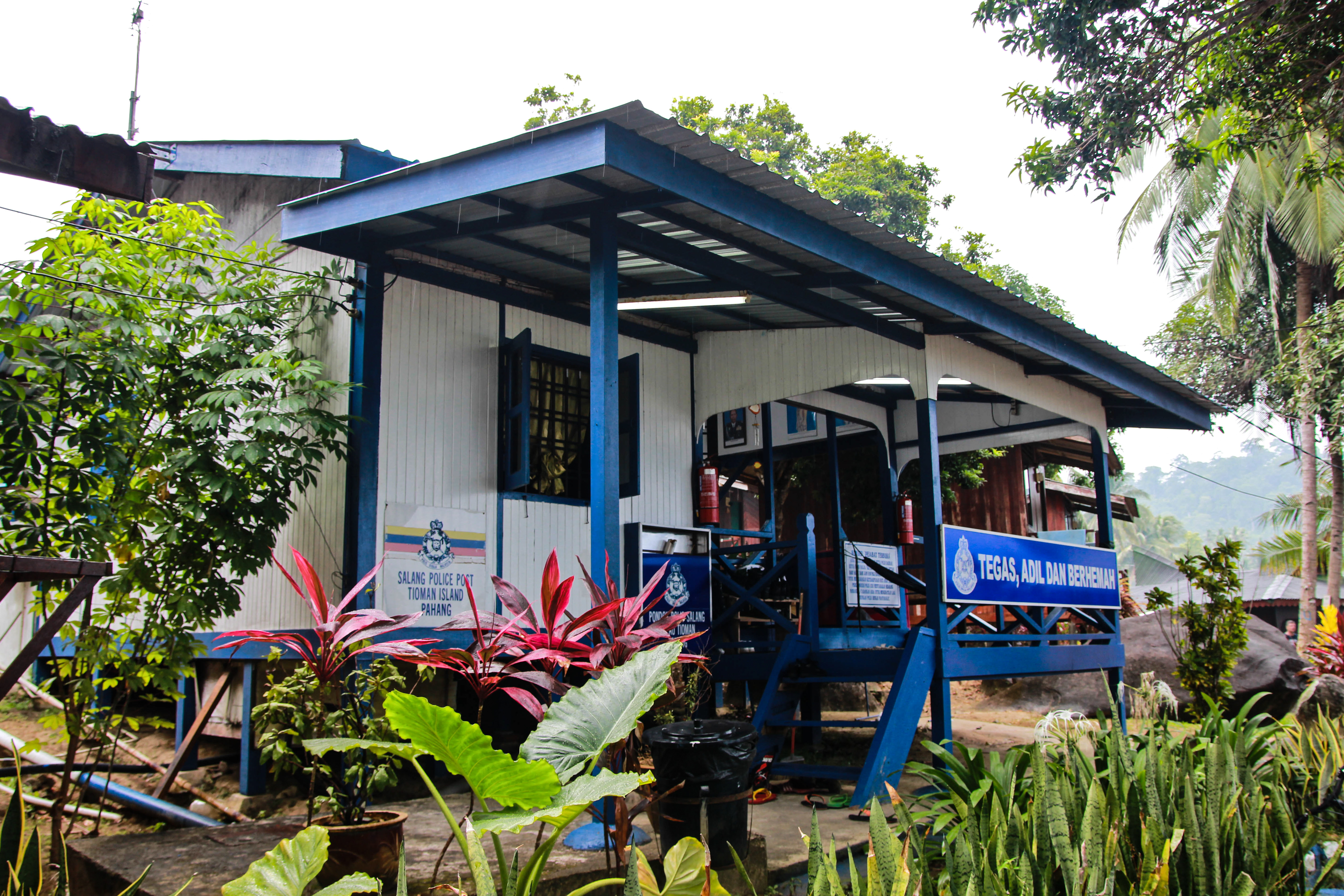 Police Pulau Tioman